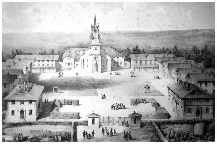 Mettray institution in 1844.